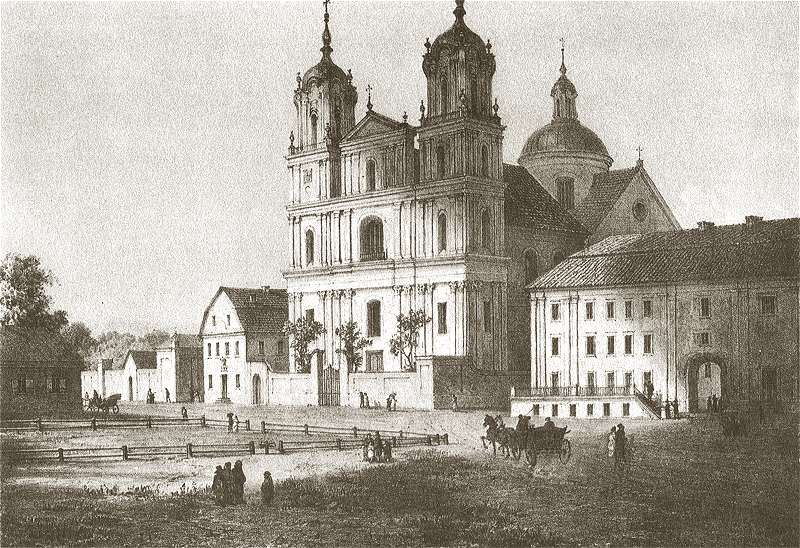 The Jesuit Cathedral of Hrodna.